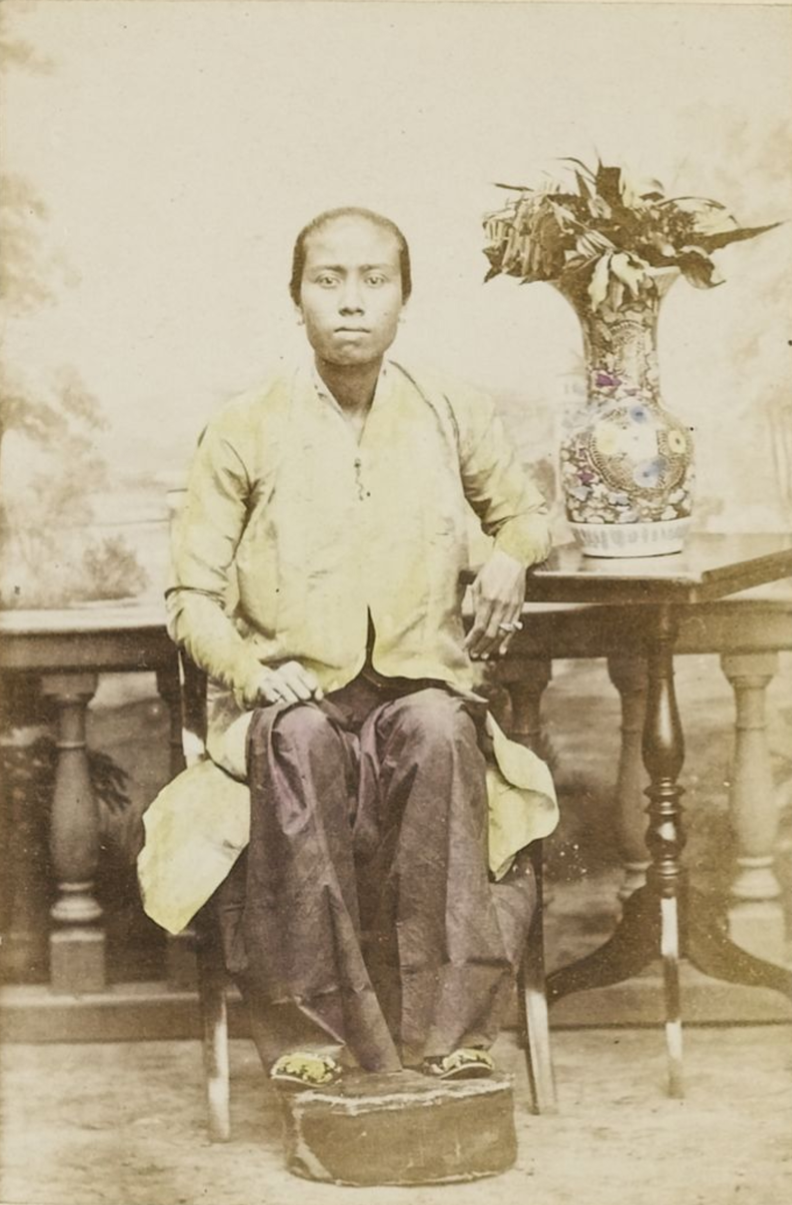 Hand-tinted photograph of a njai, circa 1867, by Jacobus Anthonie Meessen. Gelatin silver print on paper, measures 90 by 60 millimetres (3.5 in × 2.4 in).